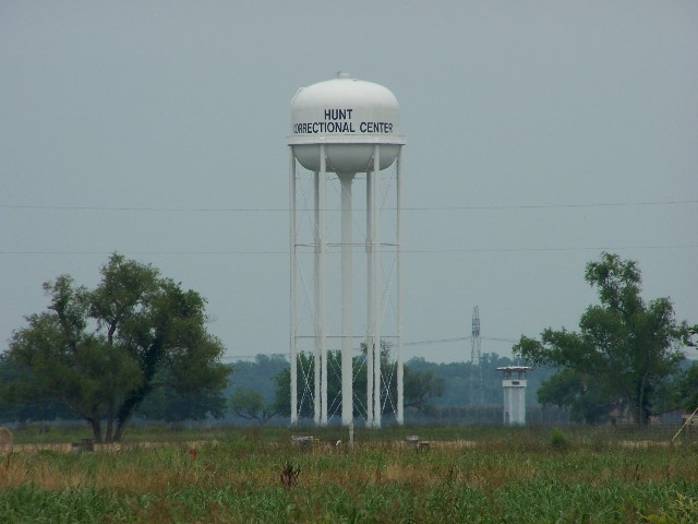 One of two identical water towers in the Elayn Hunt Correctional Center campus